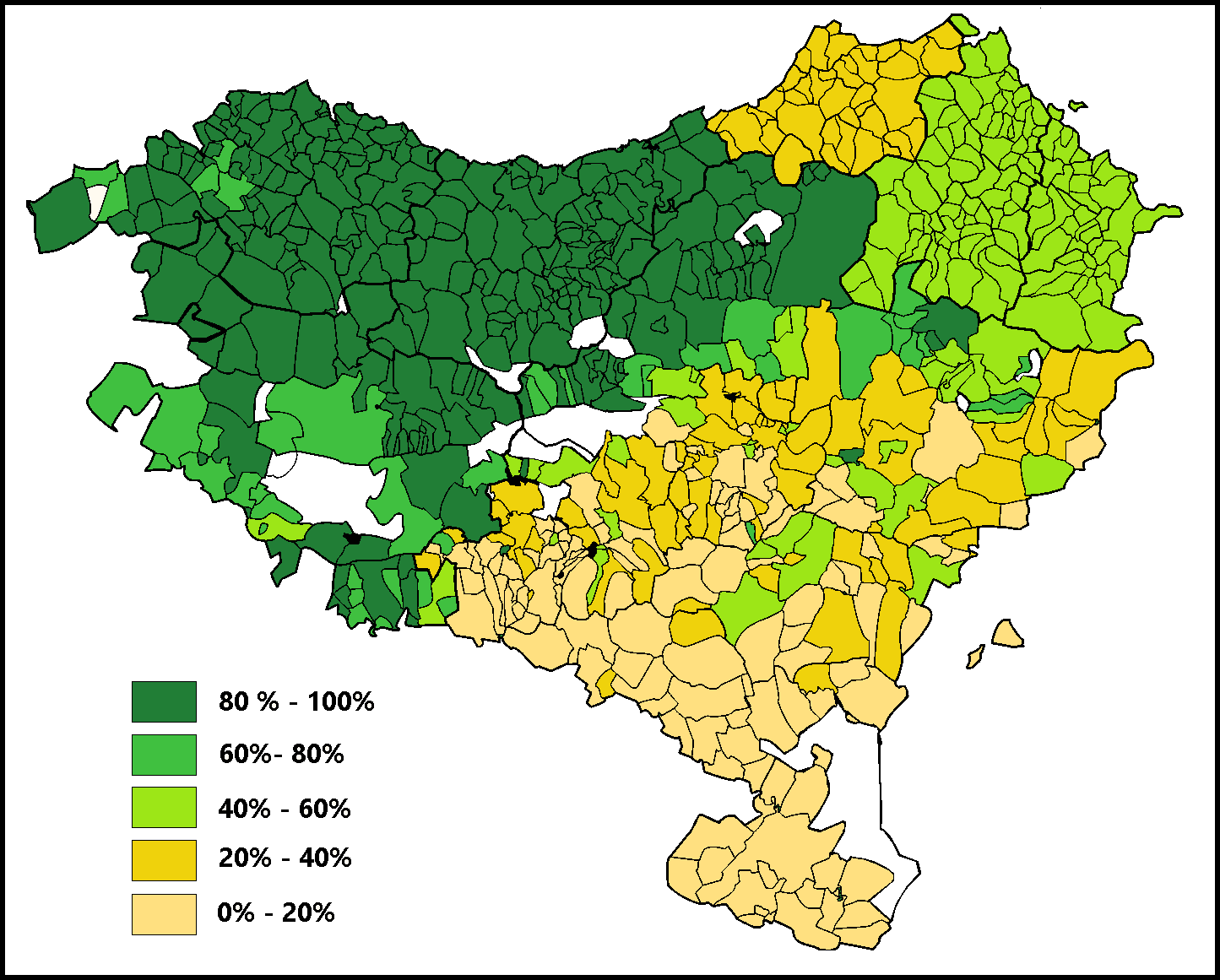 The percentage of Basque passive speakers in 2011 among under -35s.